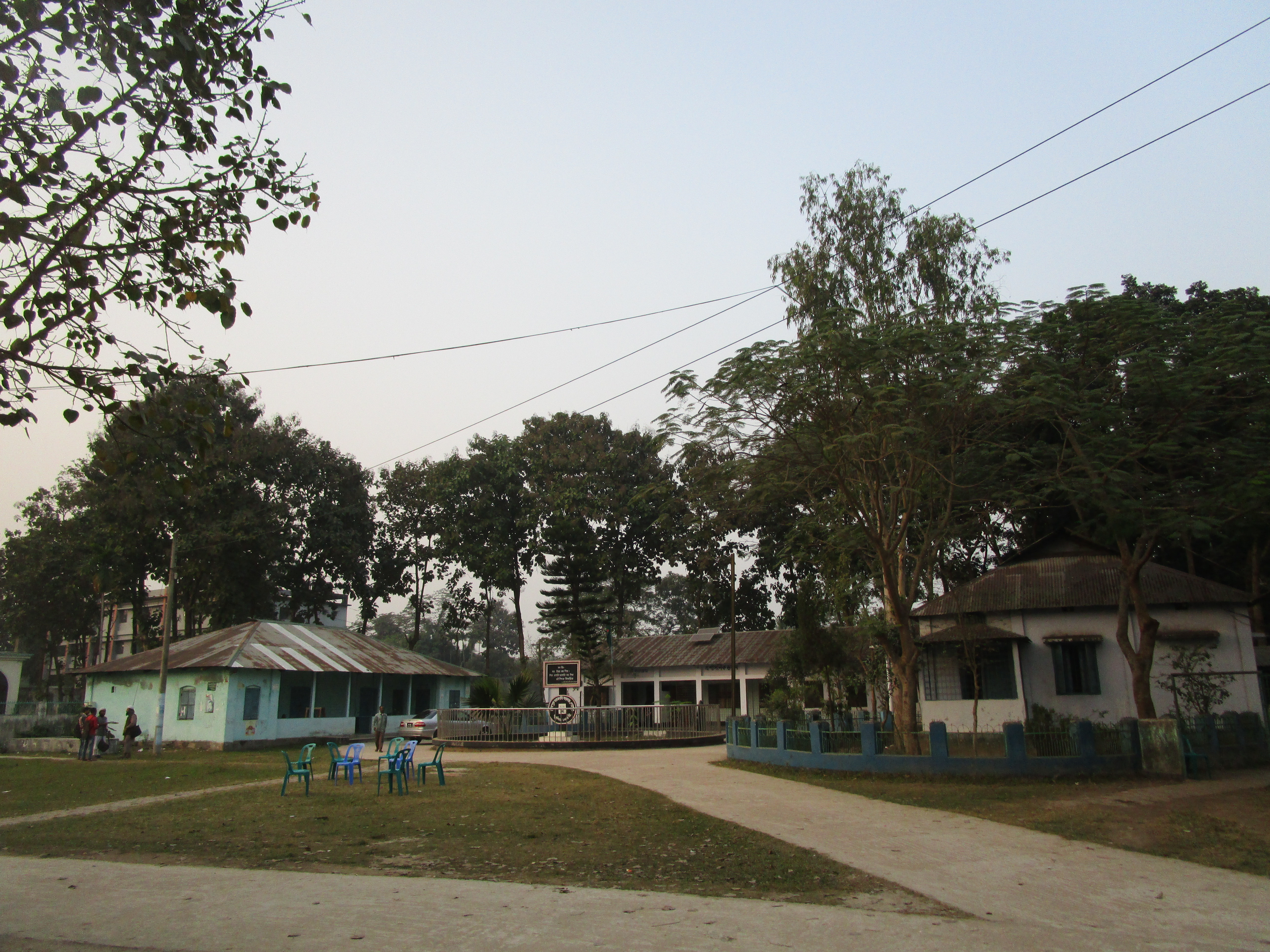 Sherpur Govt College building